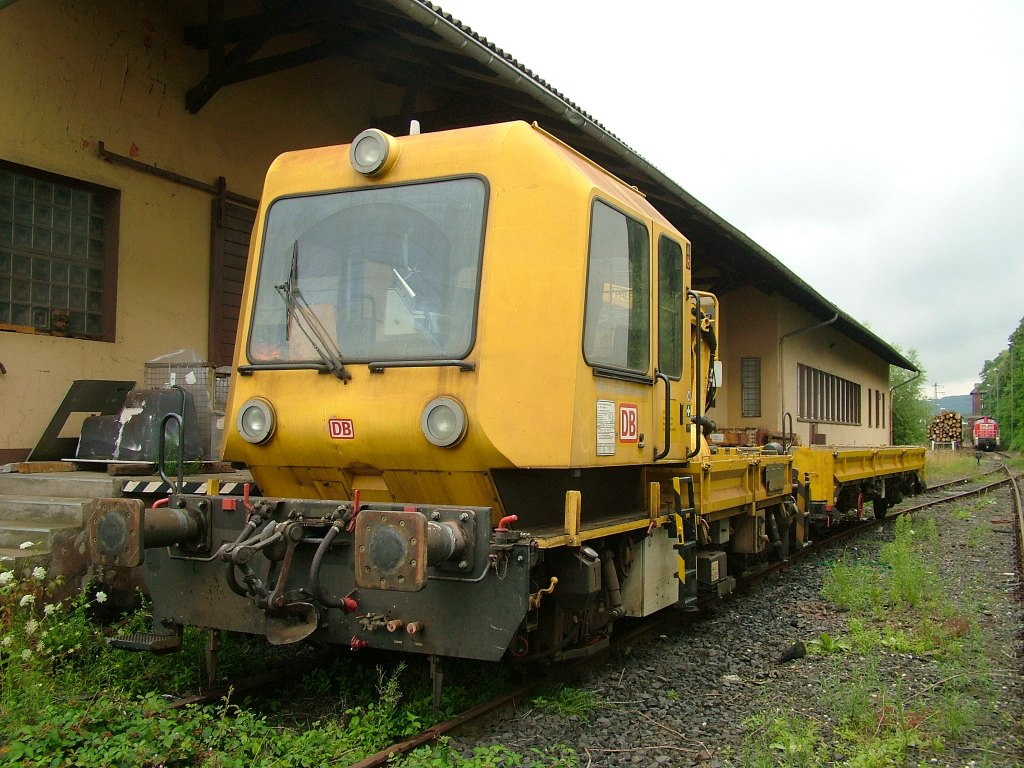 Track Maintenance Car GAF100R in Hagen(Westfalen)